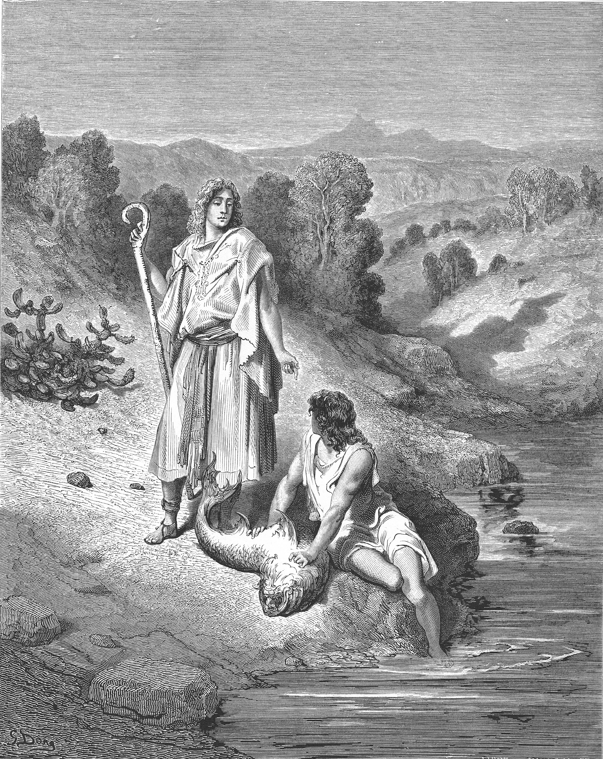 Tobias and the Angel (Tob. 6:1-18)